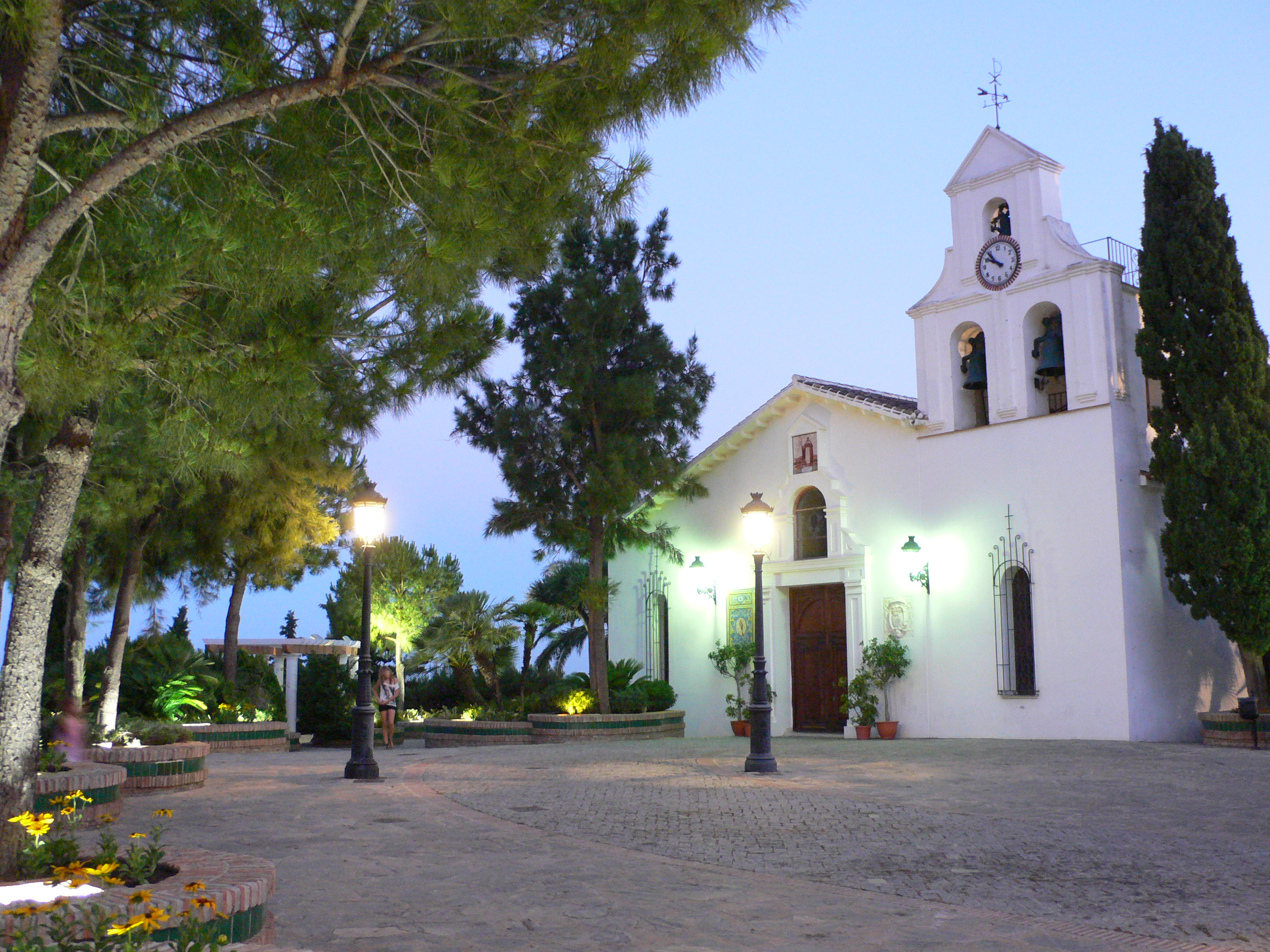 Santo Domingo de Guzmán Church, Benalmádena, Málaga, Spain.